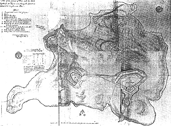 Vido island, Corfu, plans for british fortifications after 1814